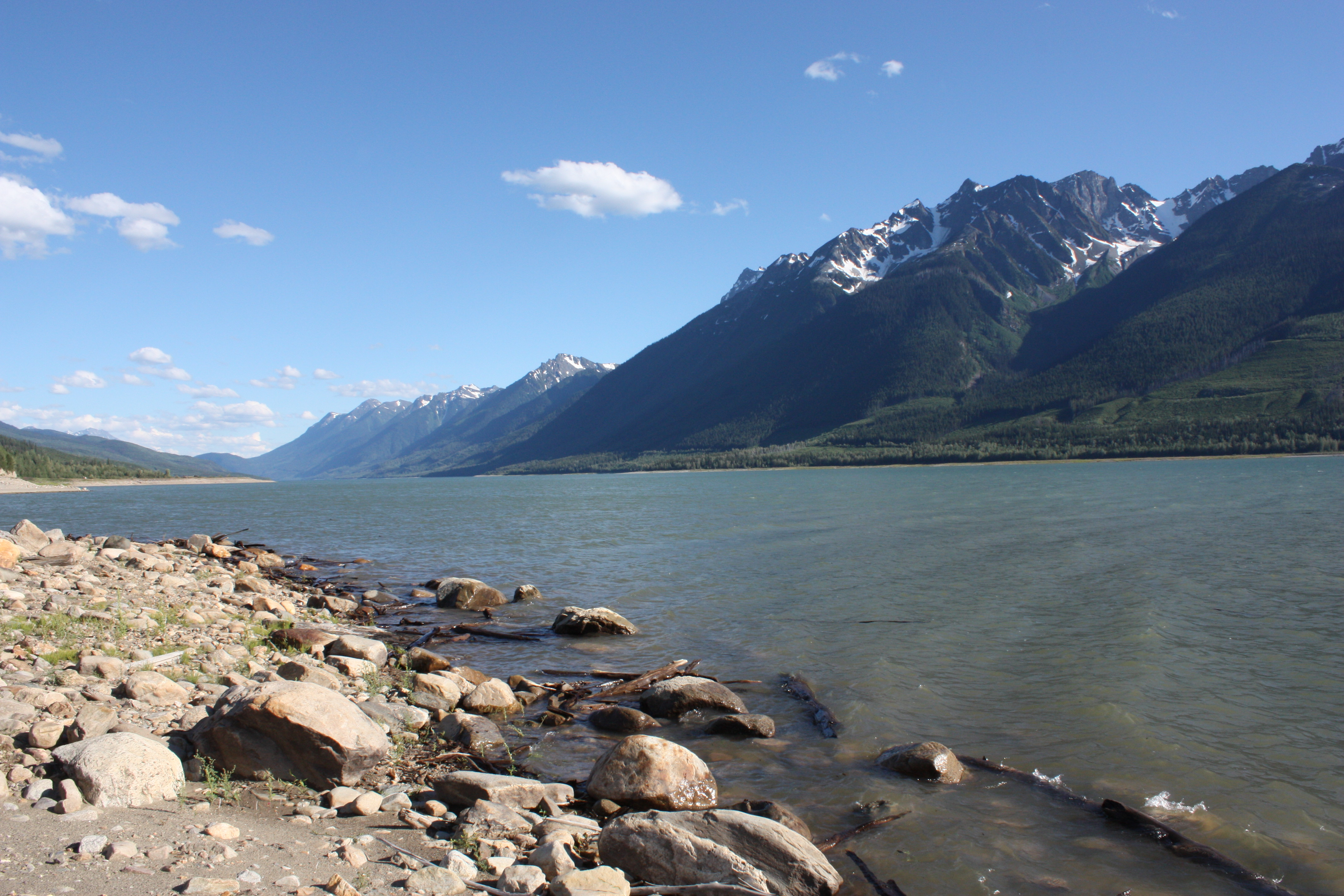 Kinbasket Lake, south of Valemount, B.C.